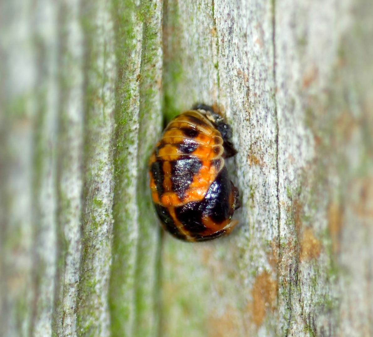 Picture taken by Marc Van Hoorn. 05/12/2005. AF Micro Nikkor 70-180mm Nikon macro speedlight SB-29